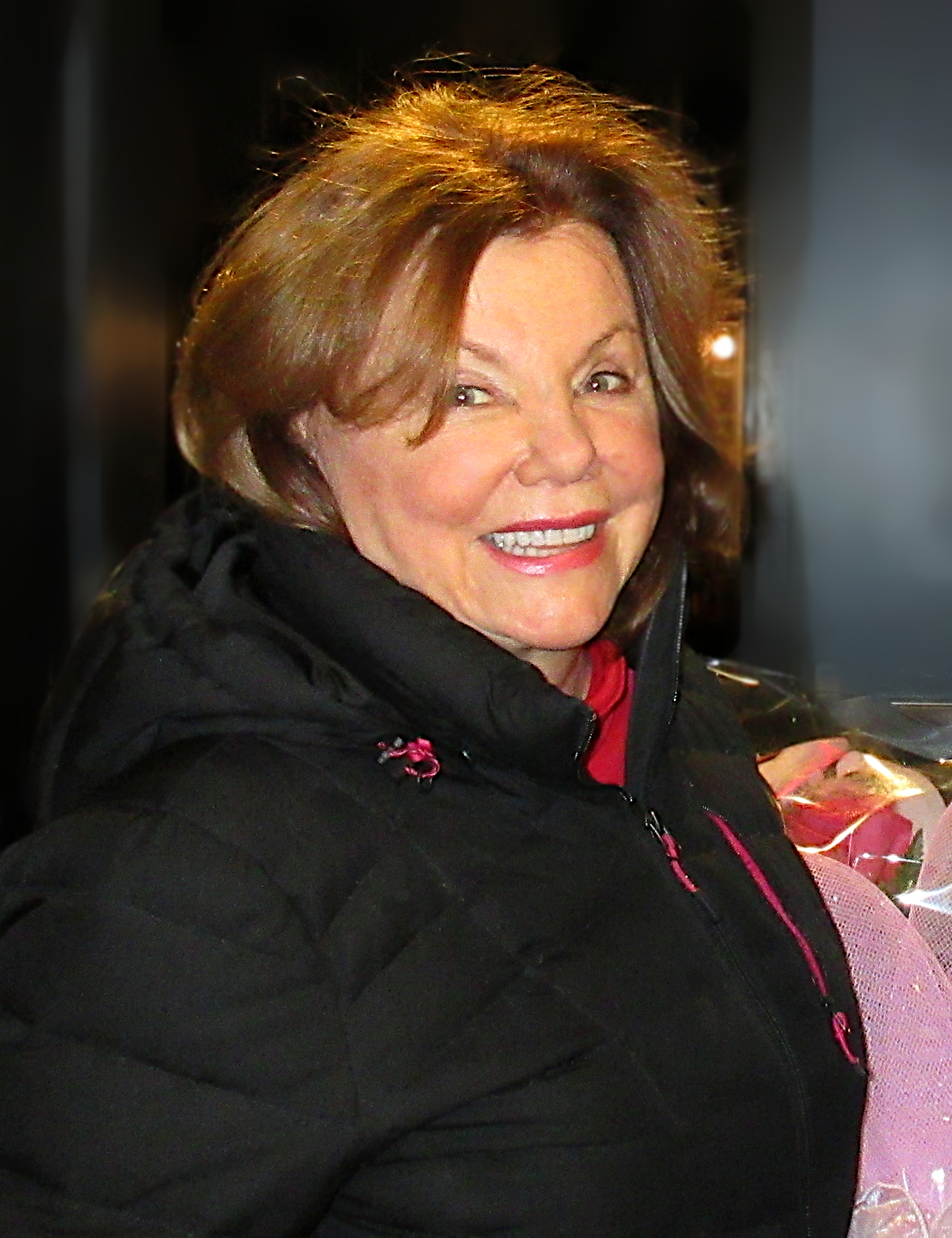 Star of The Goodbye Girl, 2 Days in the Valley, Frasier, and one-time SCCA racer. NYC Feb '18.